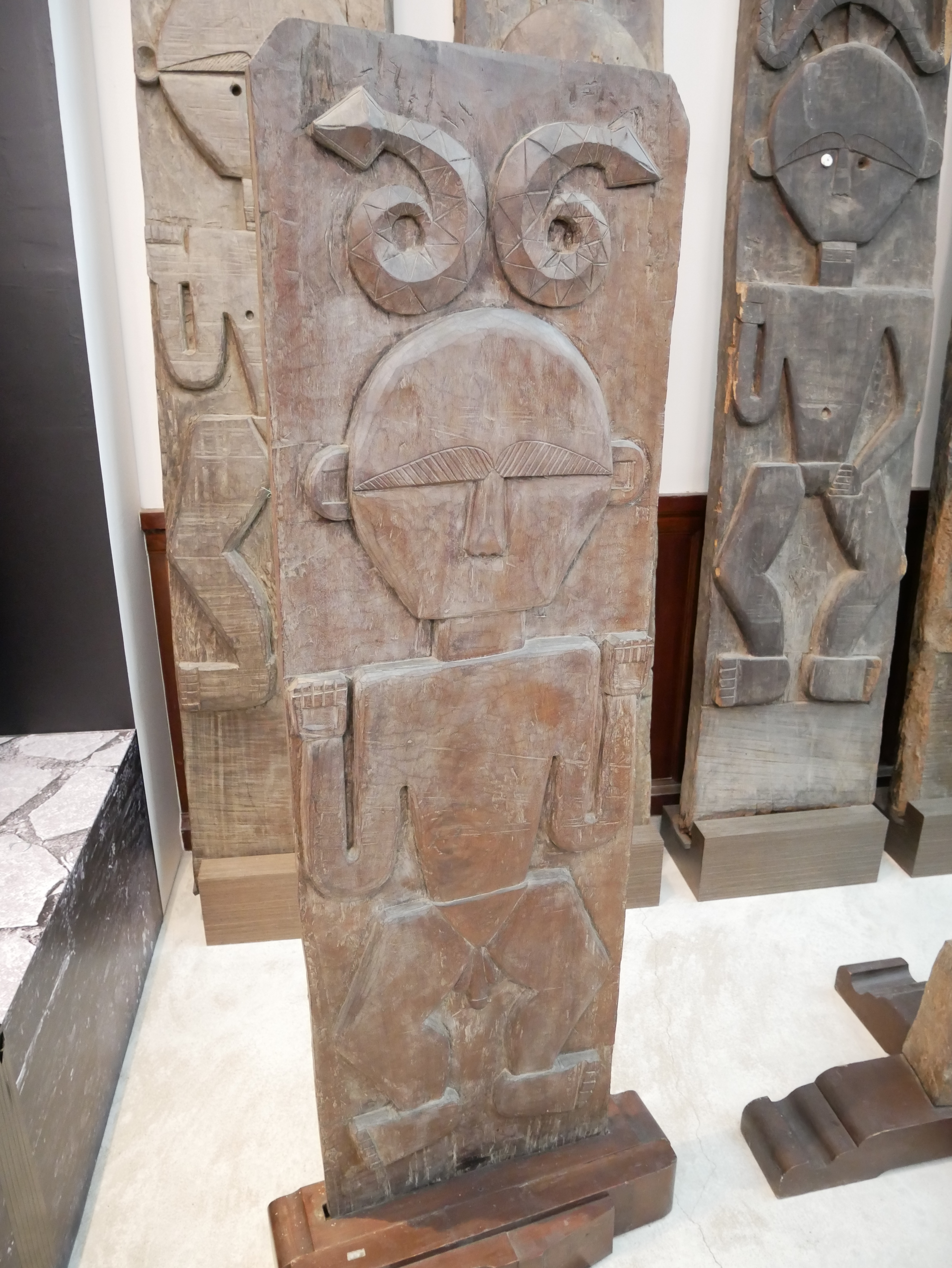 魯凱族大南社（Taromak，臺東廳臺東郡蕃地タルマ社）男性祖先木雕柱，臺北市大安區學府次分區學府里